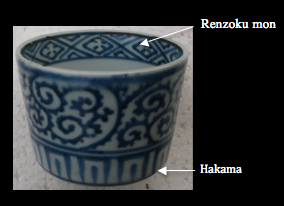 Japanese names for parts of a soba-choko.